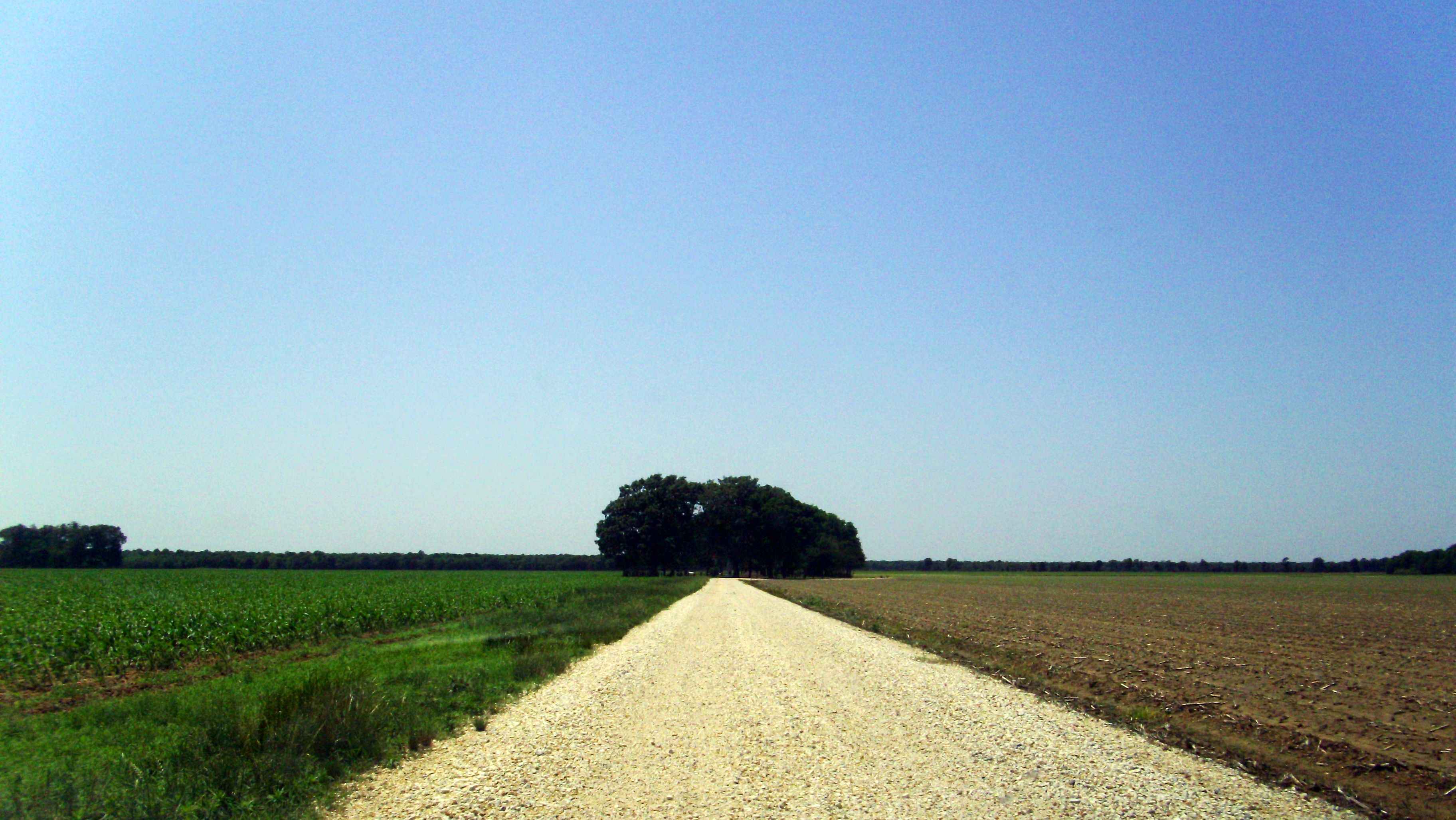 Rohwer War Relocation Center in Rowher, Desha County, AR